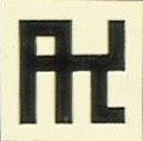 Theo van Doesburg. Monogram Antony Kok [part of a sheet with 11 monograms]. 1919 (?). Inkt op papier (?). ICN (inv.nr. AB4957).